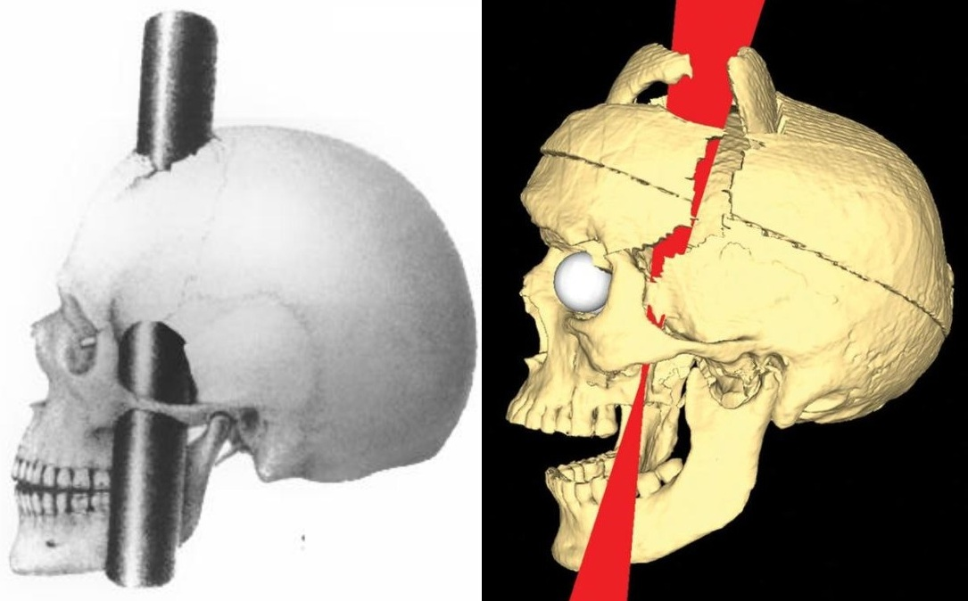 Side-by-side comparison of estimates, by two different authors, of path of tamping iron through the head of Phineas Gage